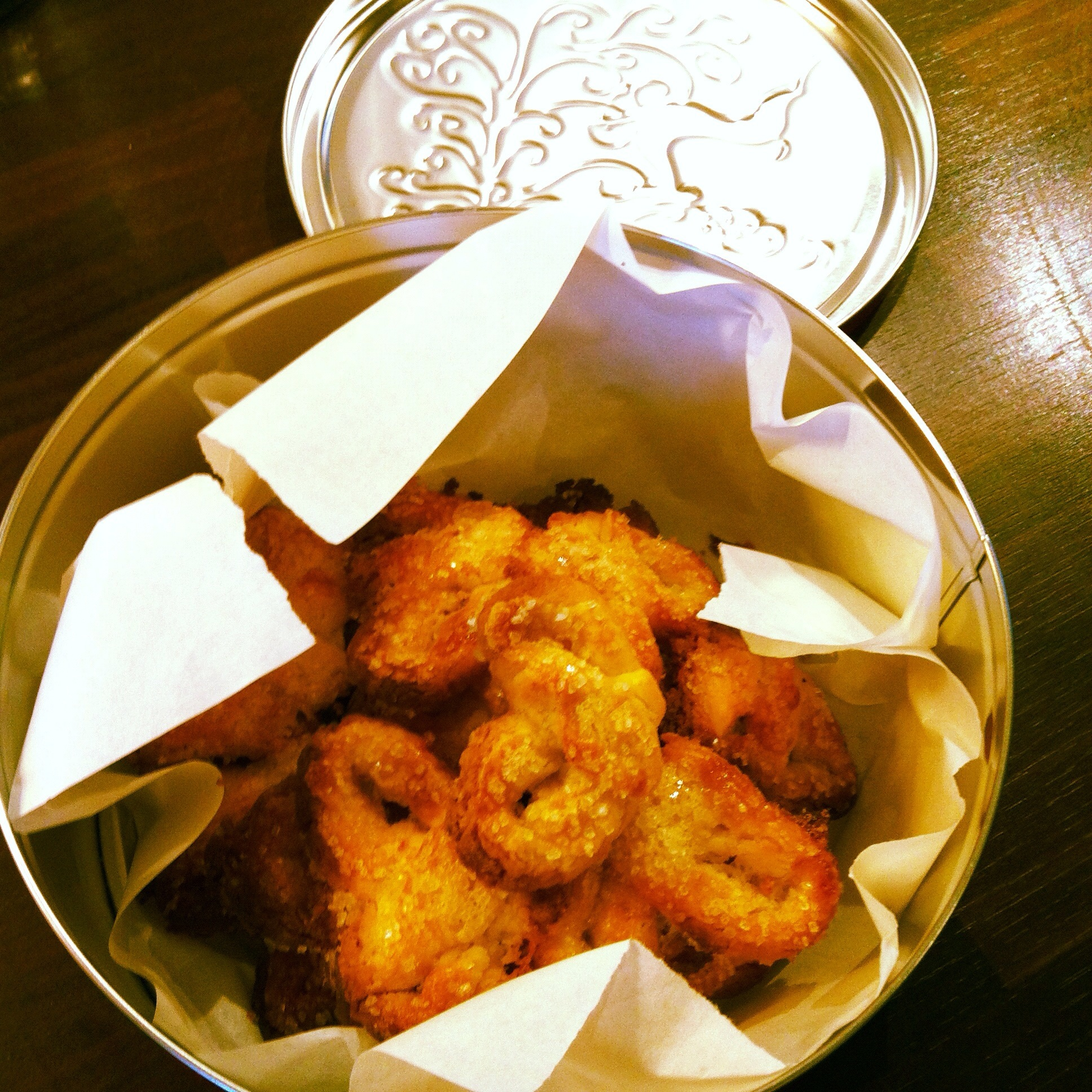 Tin of Norwegian Christmas cakes, "berlinerkranser".